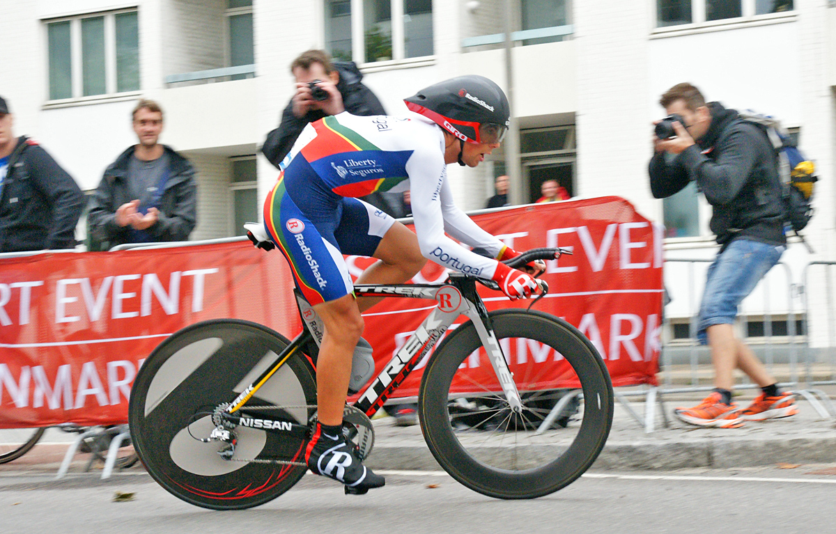 2011 UCI Road World Championships – Men's time trial - Nelson Oliveira, Portugal